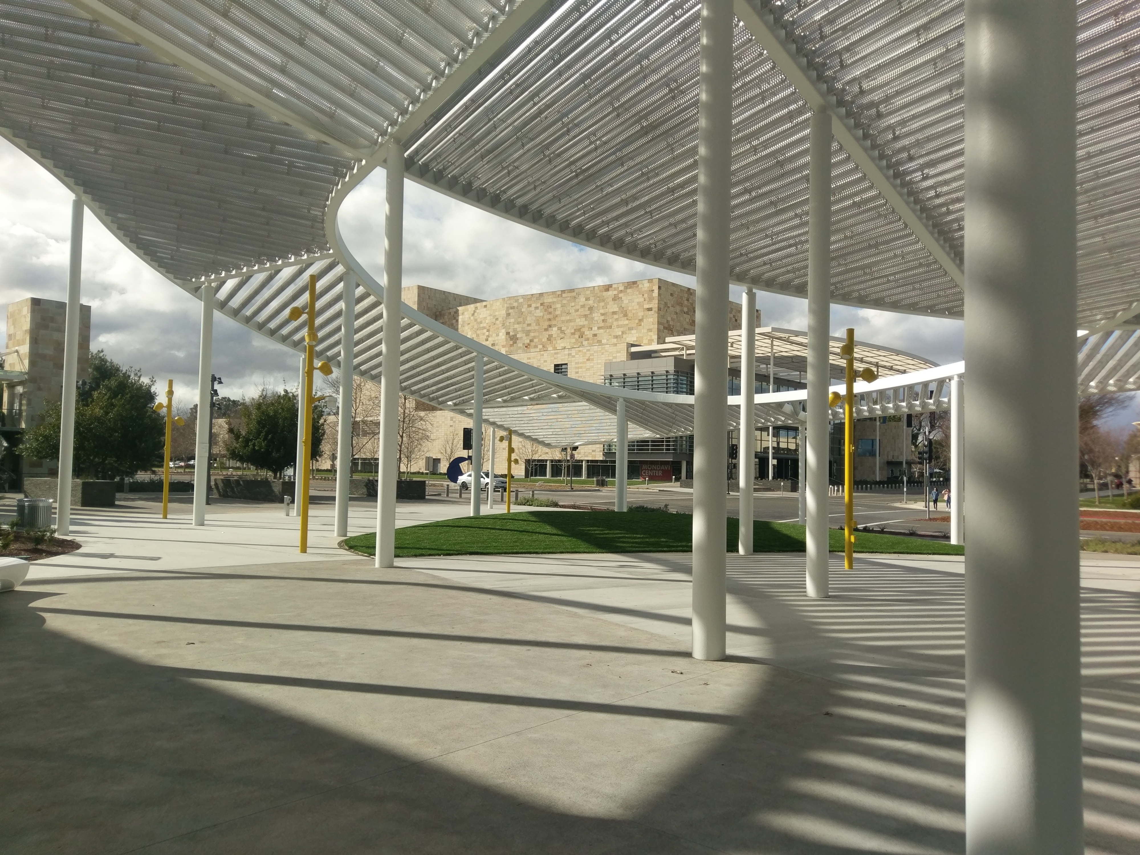 Architectural feature of the museum. Photo by Jim Heaphy.